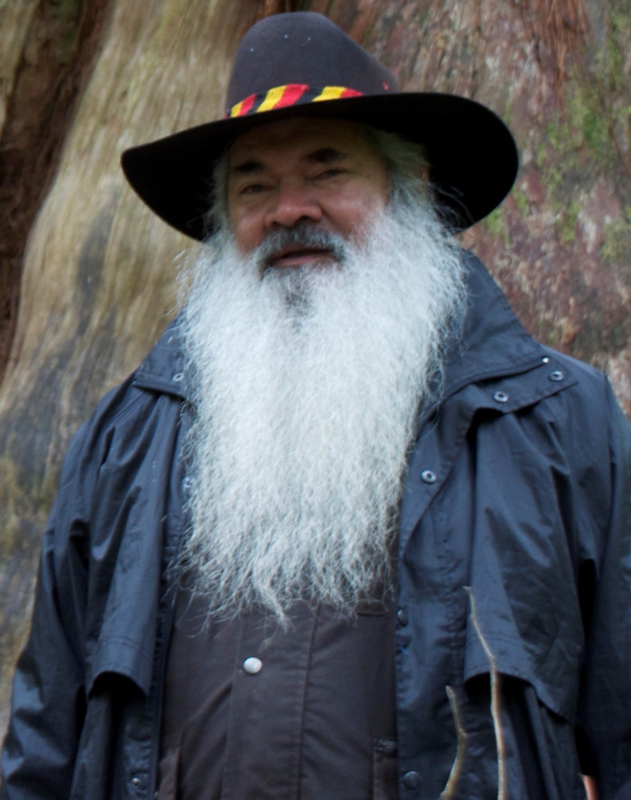 Cropped photograph of Pat Dodson at Clayoquot Sound in July 2010